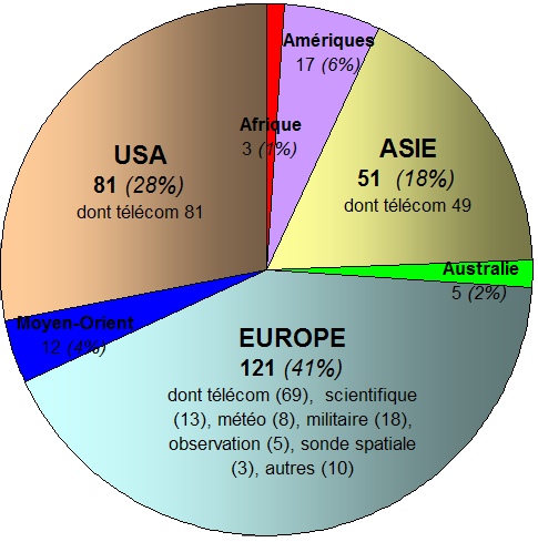 Origine and number of satellites weighting more than 100 kg launched by an Ariane rocket between 1979 and 2009